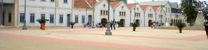 Old larnaca square next to finikoudes